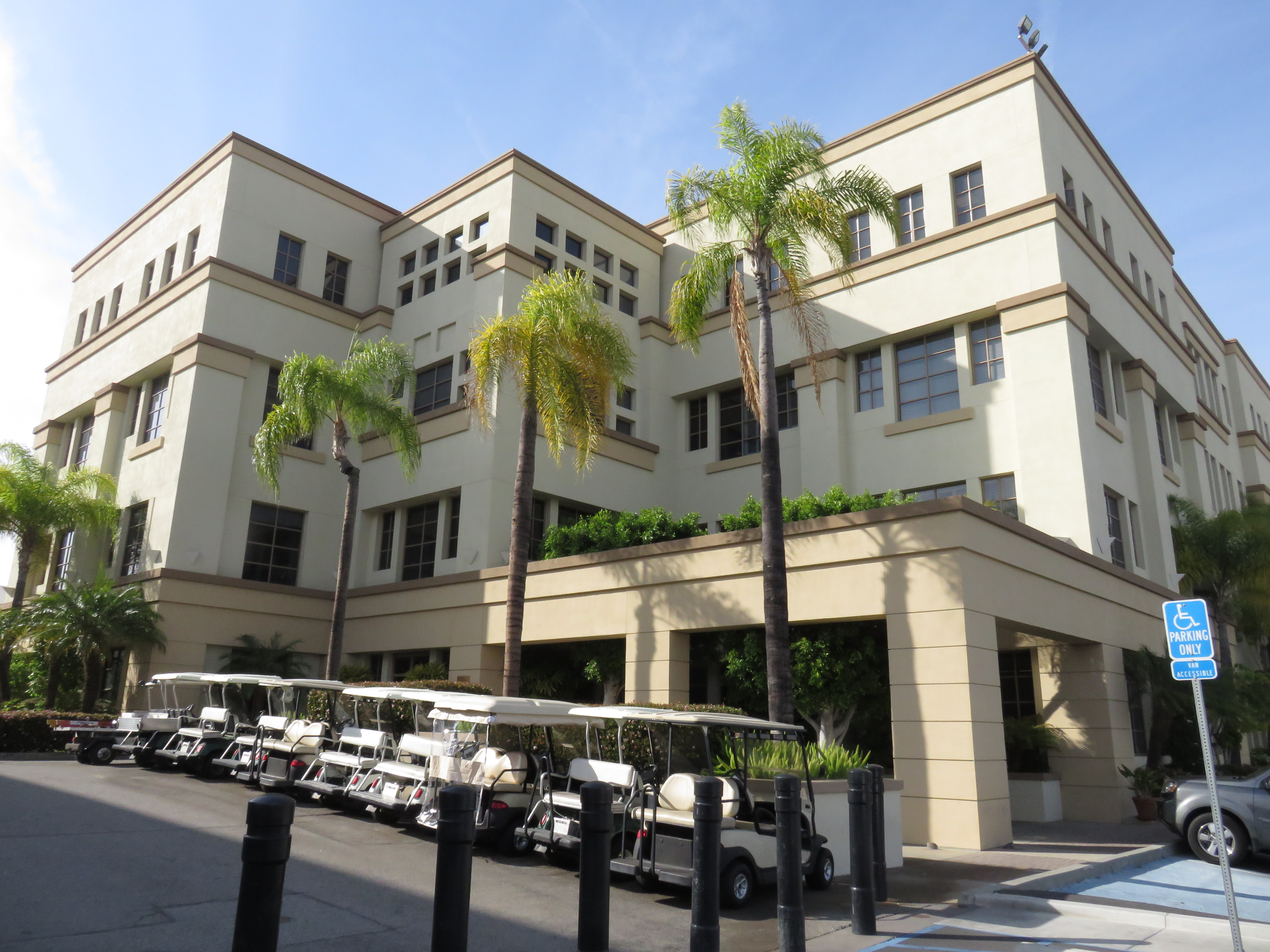 The Roddenberry Building on the Paramount Pictures lot in Hollywood, Los Angeles, California